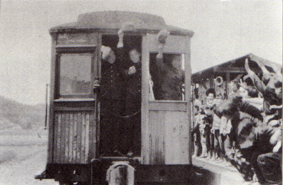 Shimaguchi station of Izushi Railway in 1938